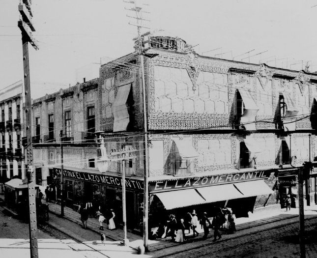 Saint Agustin House in 1905